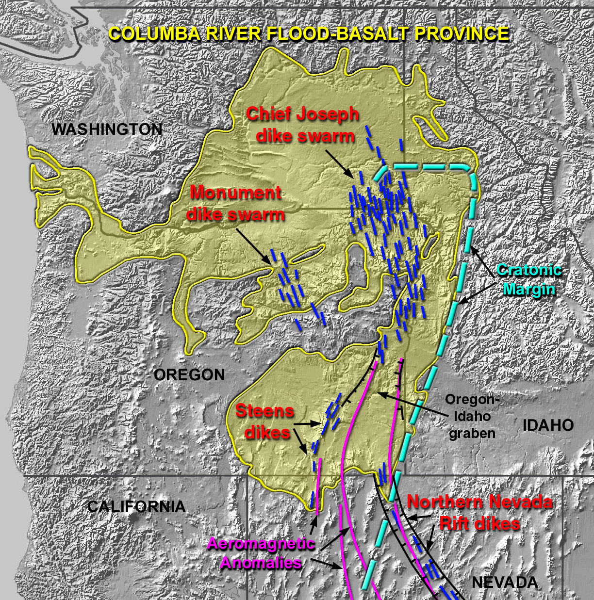 Extent of the Columbia River Flood-Basalt province (principally Washington and Oregon).